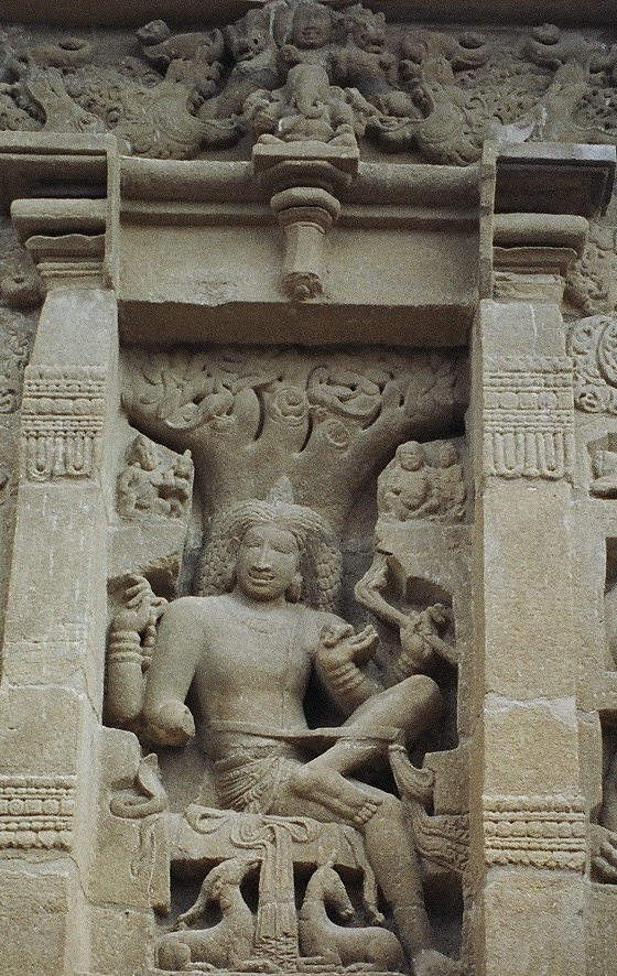 SHIVA Dakshinamurti ~ carrying a burning torch? Kailas. above makaras eating yazhis hugging a gana Kailashanathar Koil